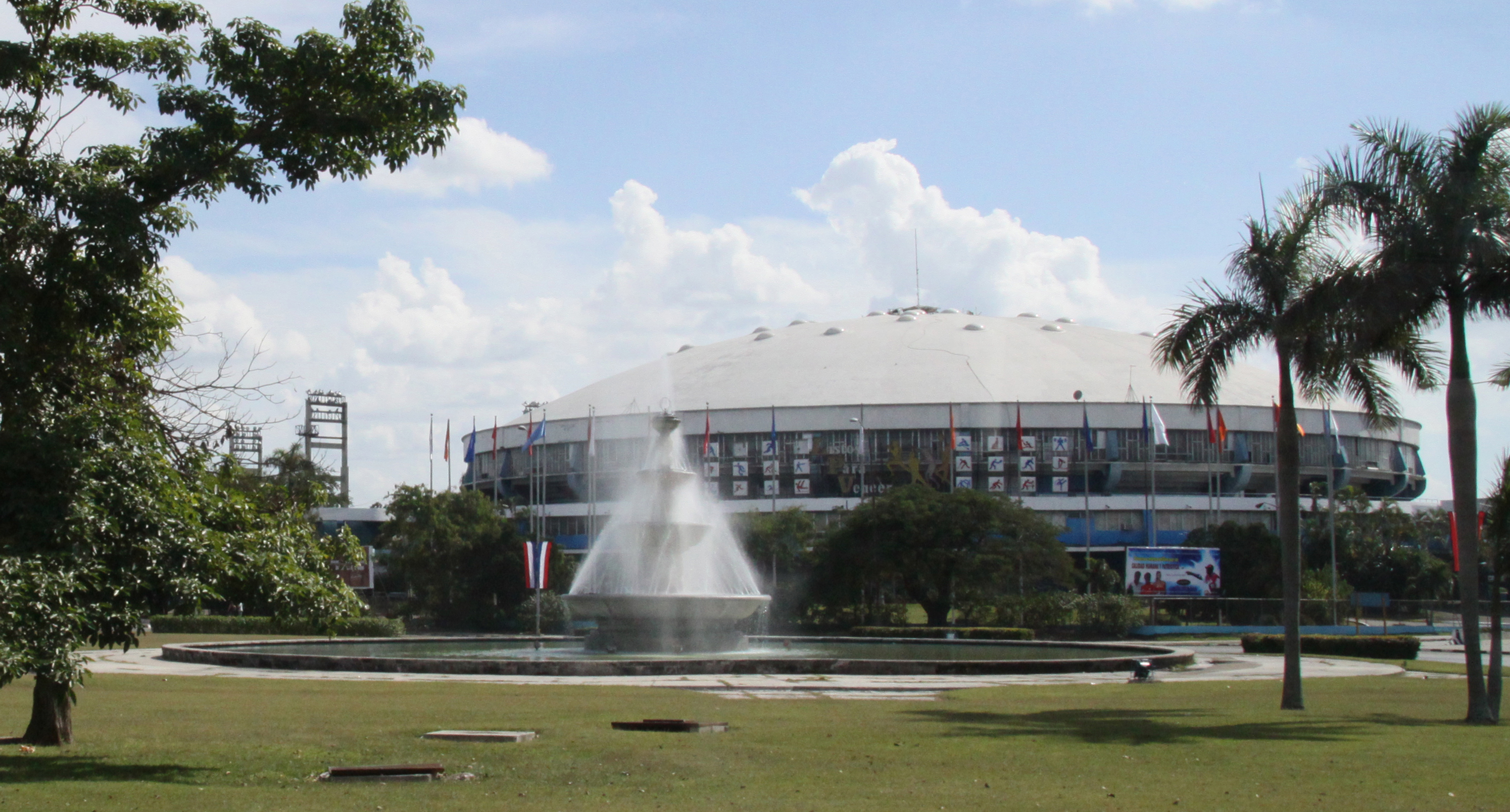 Baseball Stadium in La Habana, Cuba